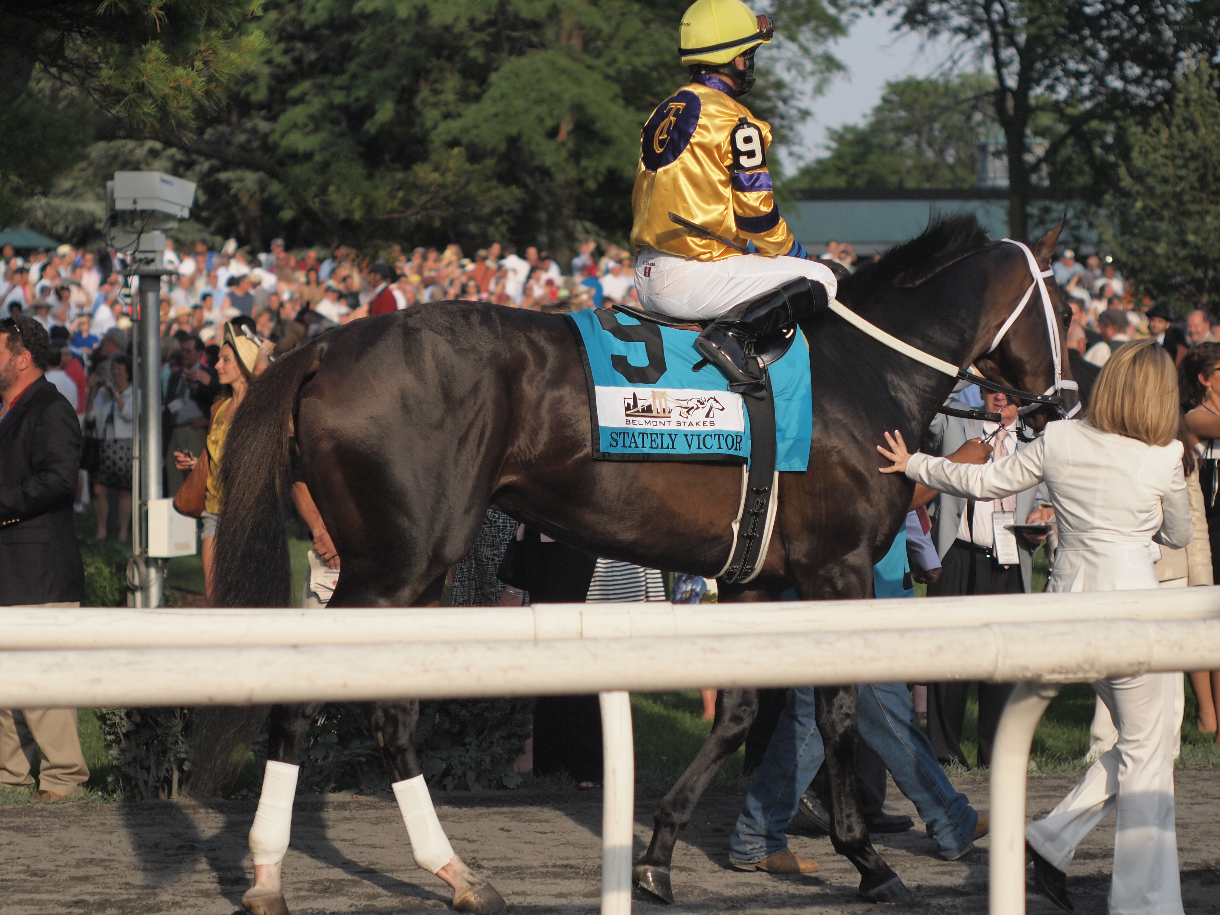 Images taken at Belmont Park on Belmont Stakes day, June 5, 2010